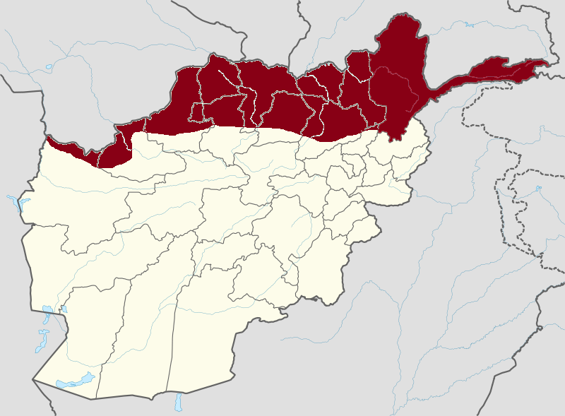 Afghanistan Provinces Map and based on info in the page Afghan Turkestan and ethnic map of Afghanistan.